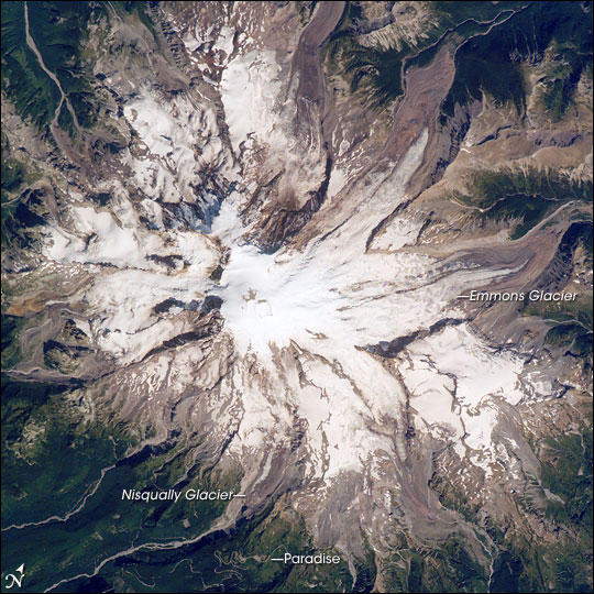 Astronaut photo of Mount Ranier.